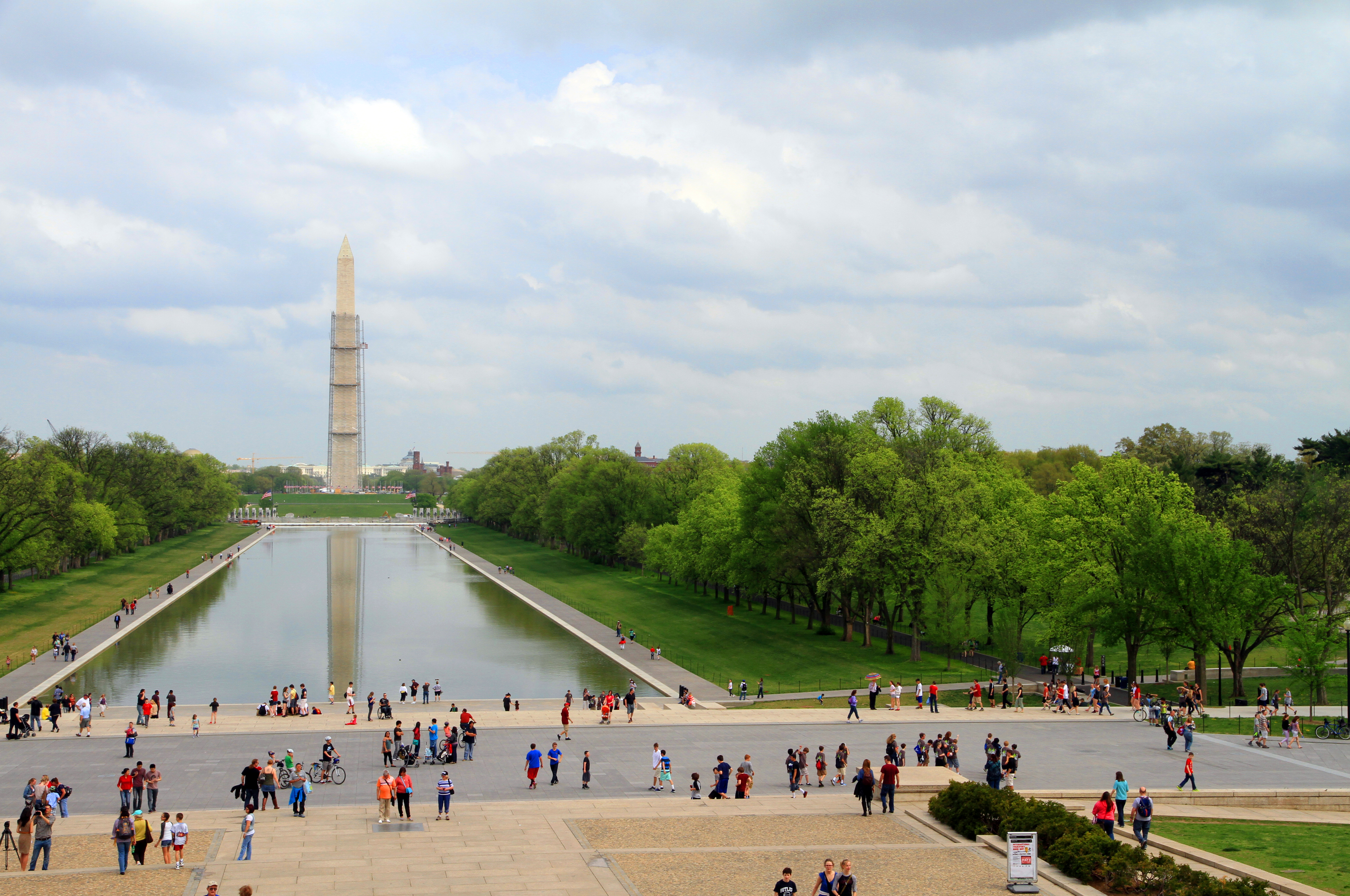 Lincoln Memorial Reflecting Pool